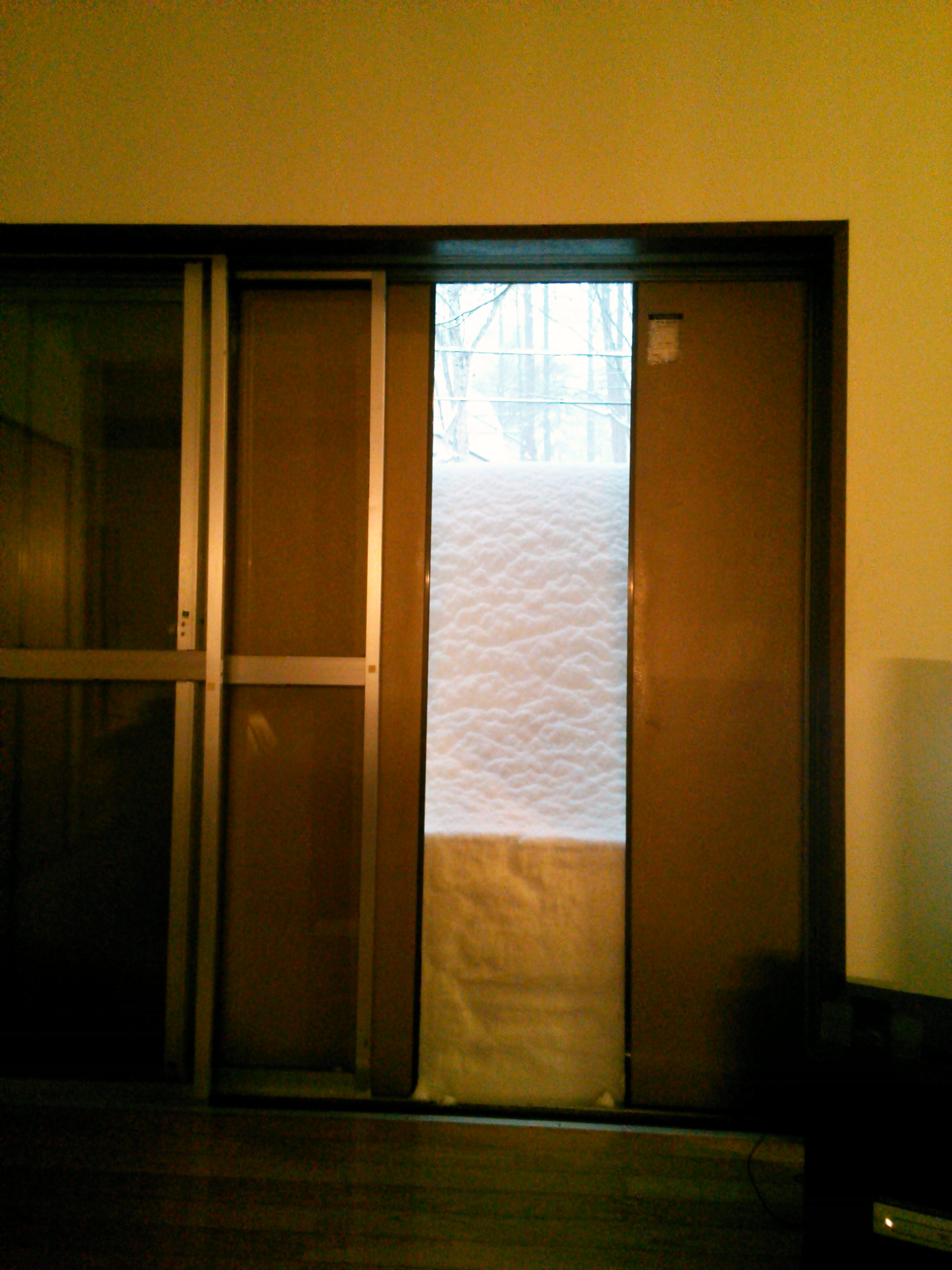 Looking out from the ground level, at Narusawa village